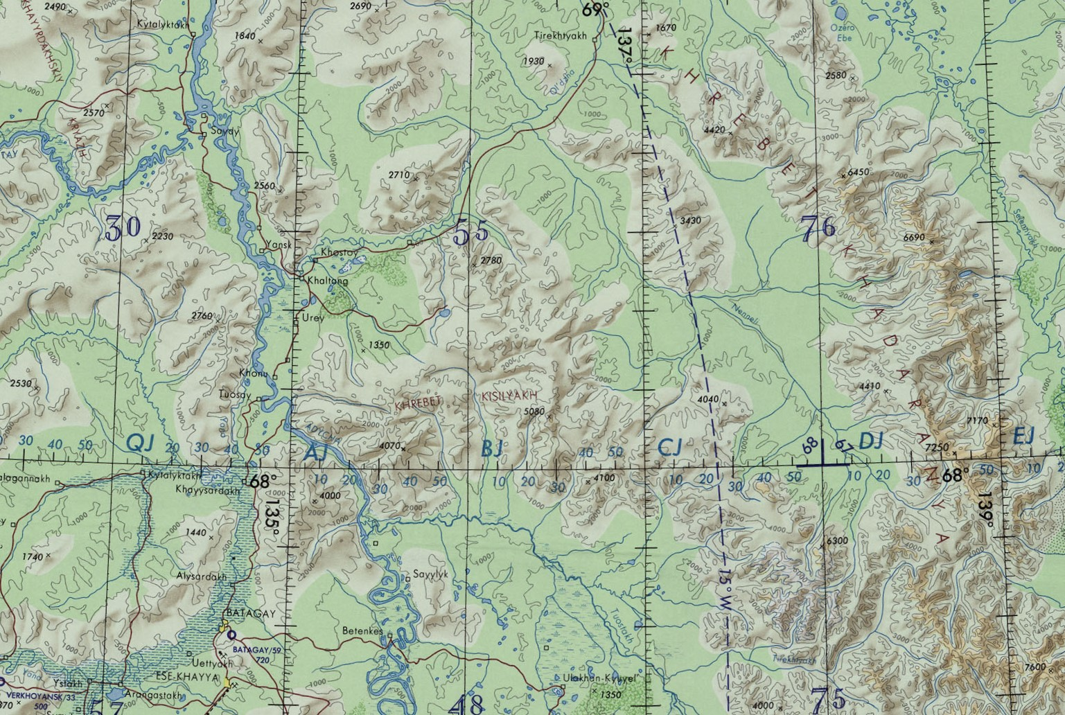 Map section showing the Kisilyakh Range in the middle, the Khadaranya Range in the east and Batagay town to the SW. Sakha (Yakutia), Russia